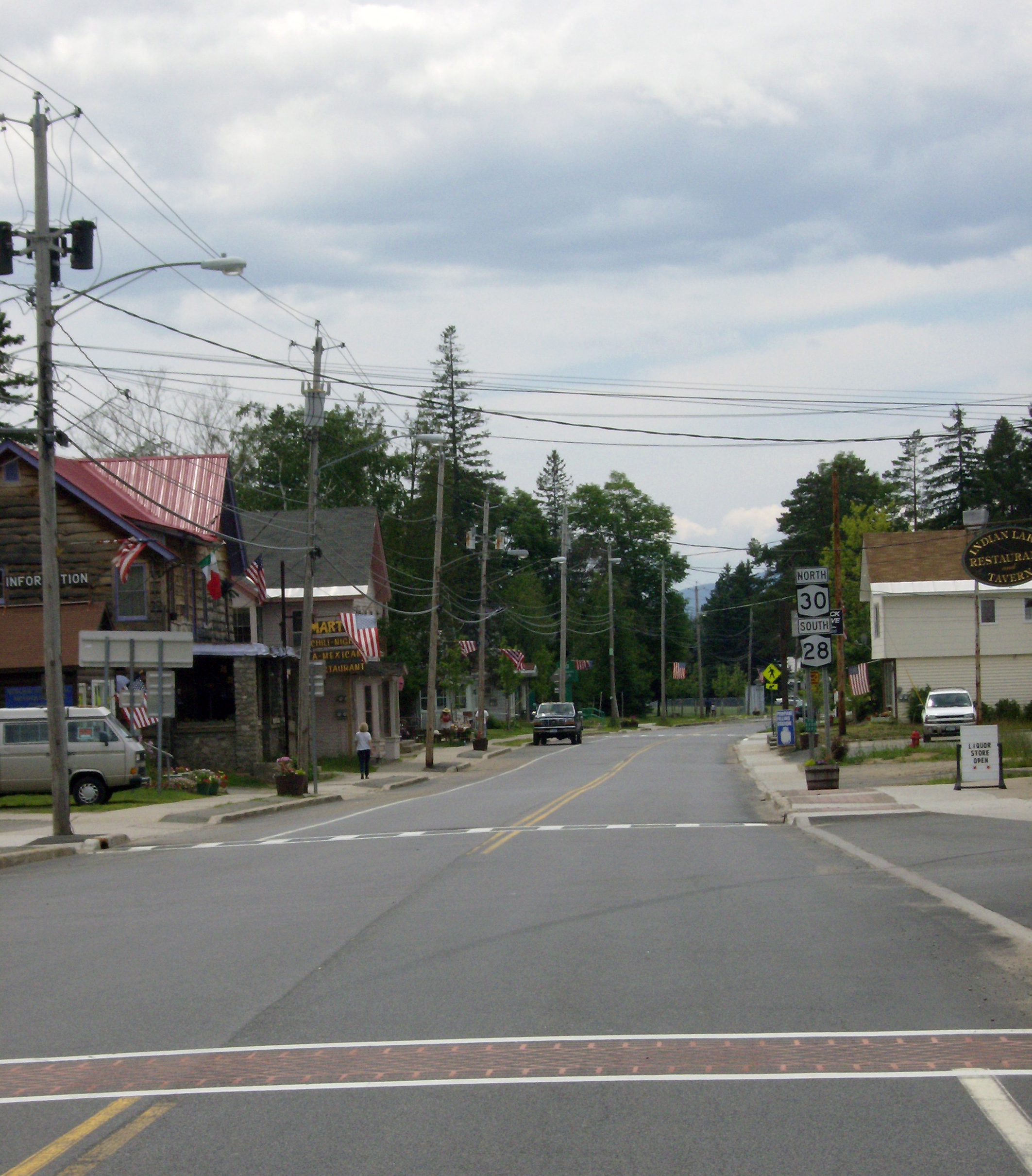 Routes 28 and 30 overlap on the western part of the Indian Lake hamlet.